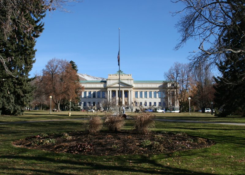 Park Building, University of Utah Campus, President's Circle Taken December 2005 by Brian Davis